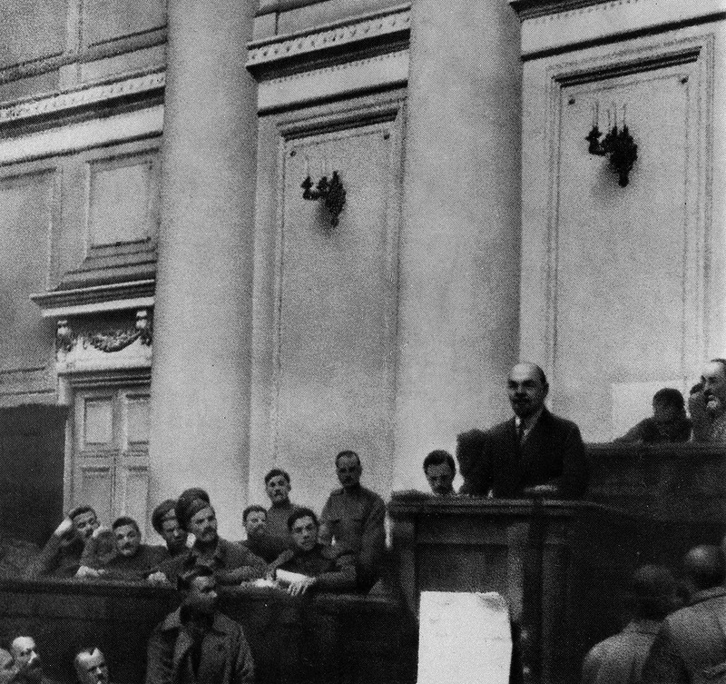 Lenin speeking at the Tauride Palace in Petrograd, 4. (17.) April 1917.